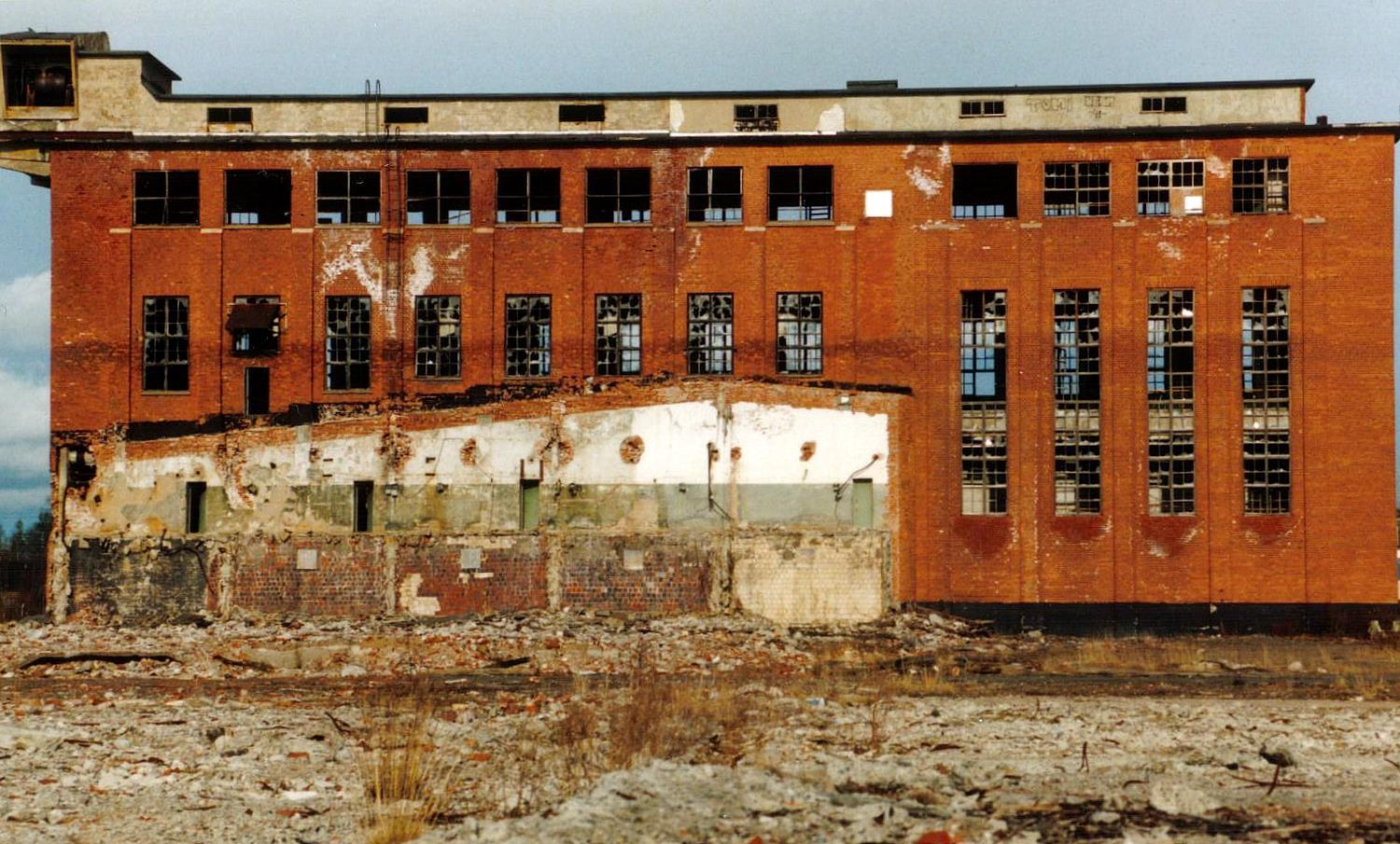 The digester house of Toppila pulp mill before renovation and alteration of use to youth and student housing apartments.